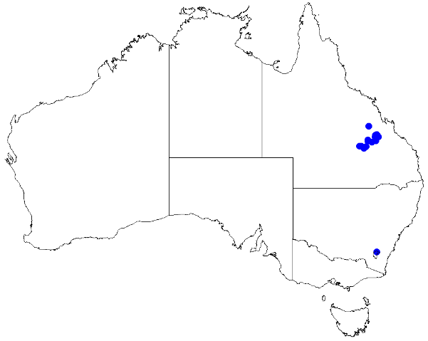 Boronia obovata downloaded from Australasian Virtual Herbarium 10 April 2019 using This download included all the environmental overlay fields and ALA's data checking fields including "cultivated / escapee", "outside expert range for species", "latitude is negated", "coordinates are transposed", "taxon misidentified", "habitat incorrect for species", and "suspected outlier" (711 fields). Deleting occurrences for which any of the above were true, 46 specimens with coordinates were deleted.